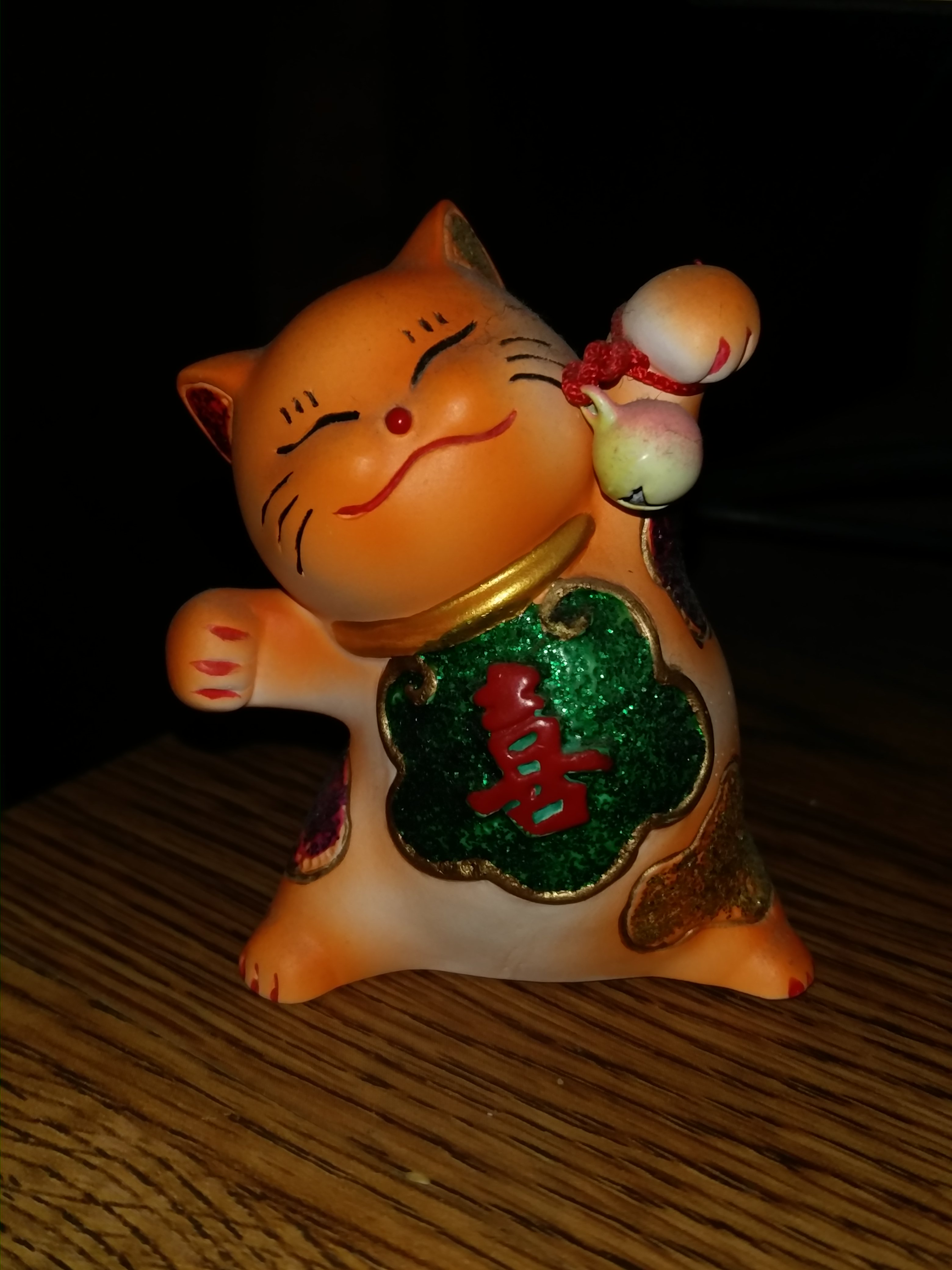 A happy orange maneki-neko ringing a bell.